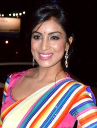 Pallavi Sharda at Besharam screening